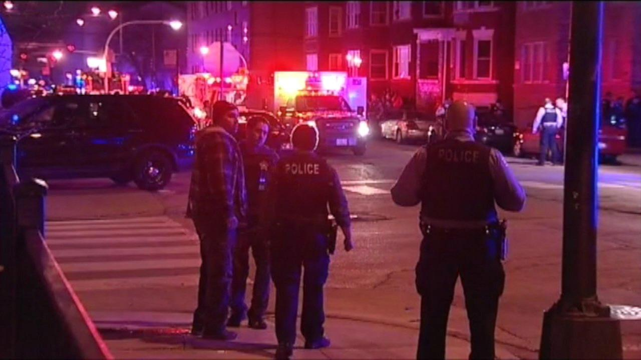 Crime scene from a shootout in Homan Square 2016